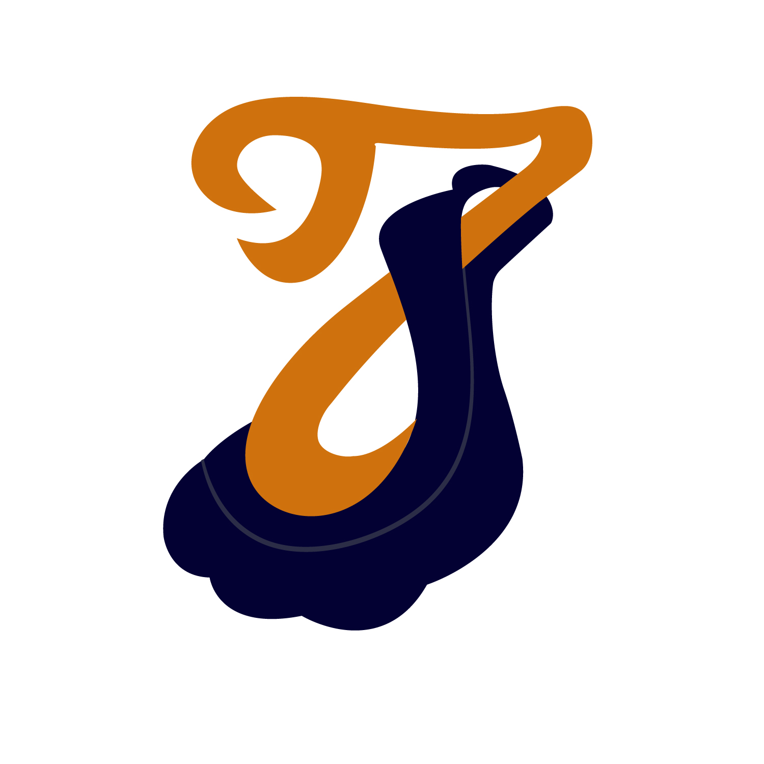 The Raven's Claw emblem (current)